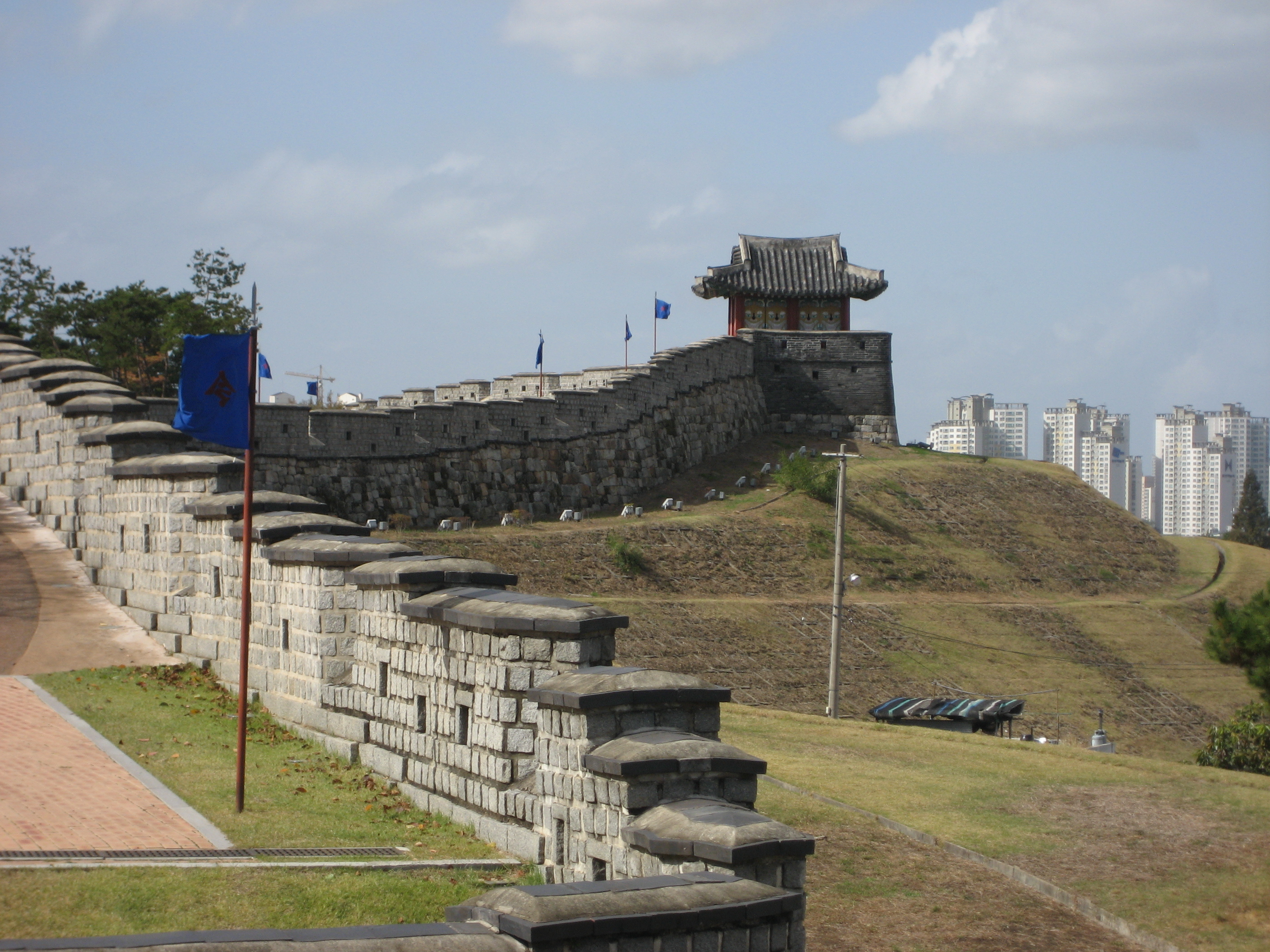 Hwaseong Fortress, Suwon, Seoul; 2013-04-28: seems to be Dongbukporu